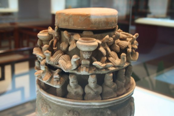 A Chinese Eastern Wu (229-280 AD) green-glaze ceramic jar with human figures, birds, and architecture.